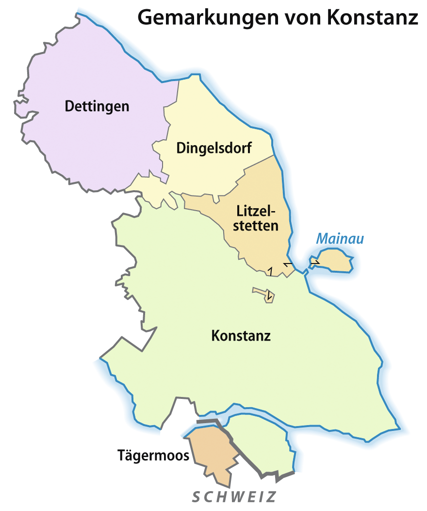 Map of the "Gemarkungen" of Konstanz, Germany